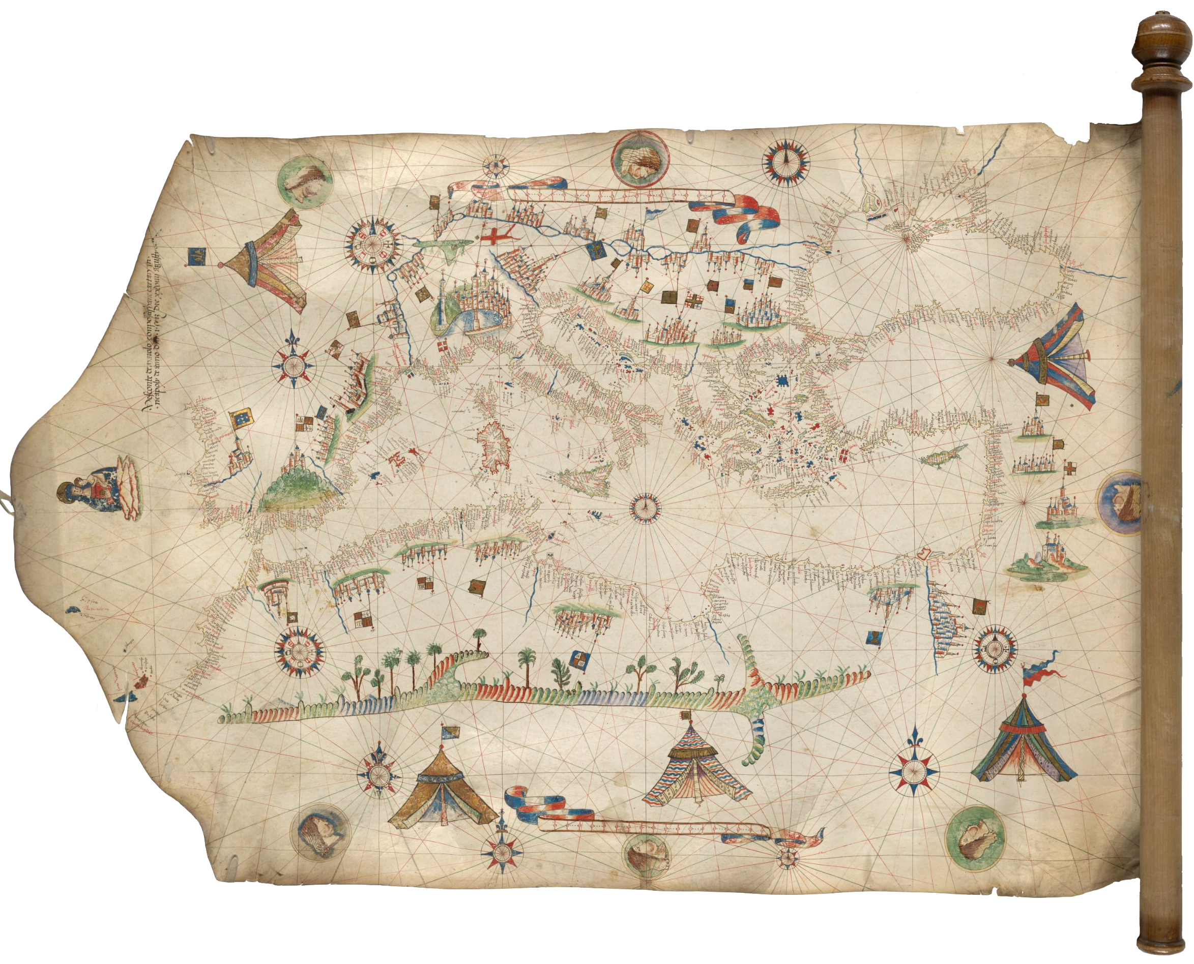 Portolan chart of the Mediterranean in manuscript, dated 1513 Aug. 29. By Vesconte Maggiolo (active 1504-1549). MS Ital 144, Houghton Library, Harvard University